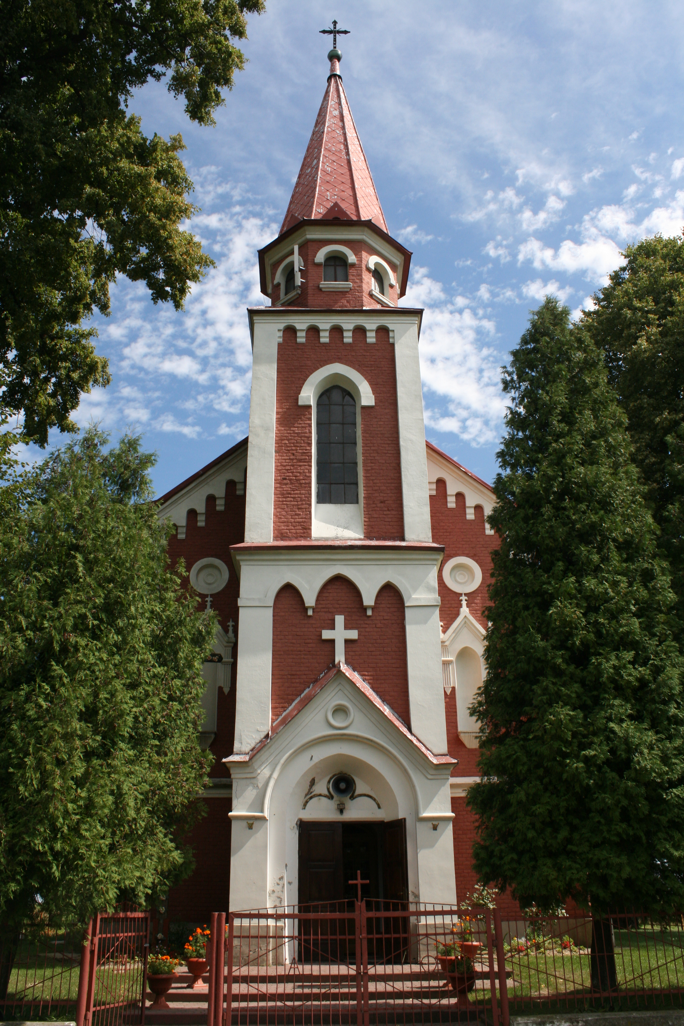 Roman Catholic church of the Holy Trinity in Potok Jaworowski, Poland